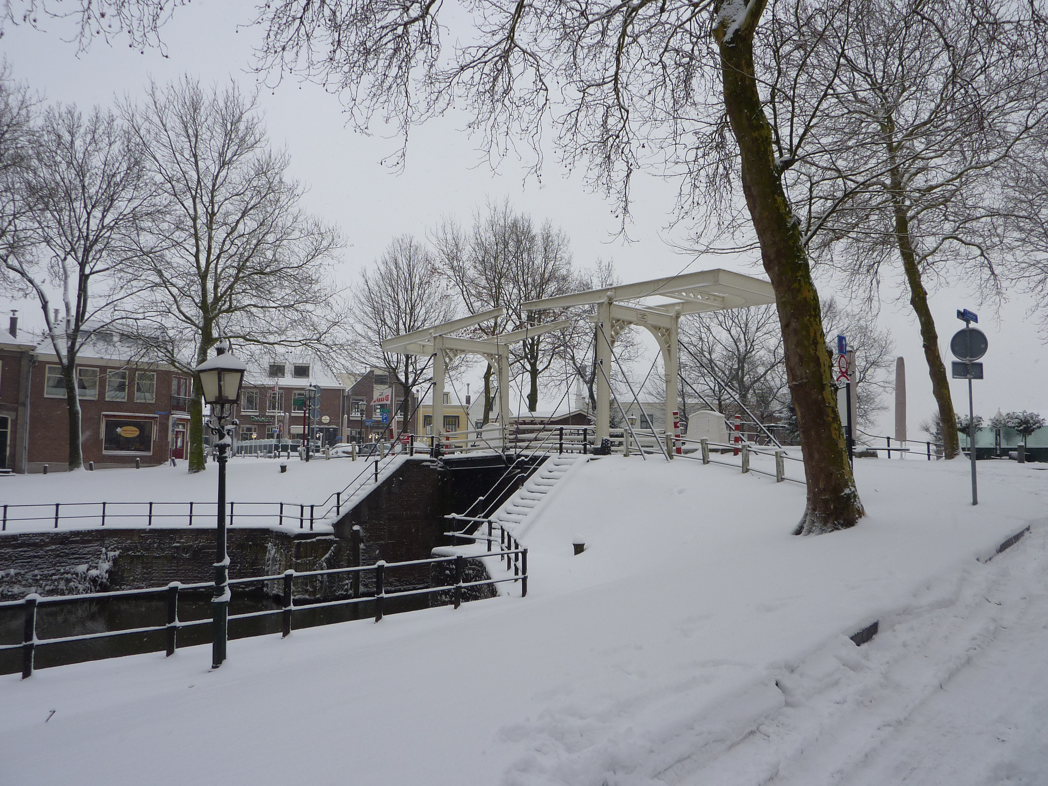 Winter Wonderland in Vreeswijk